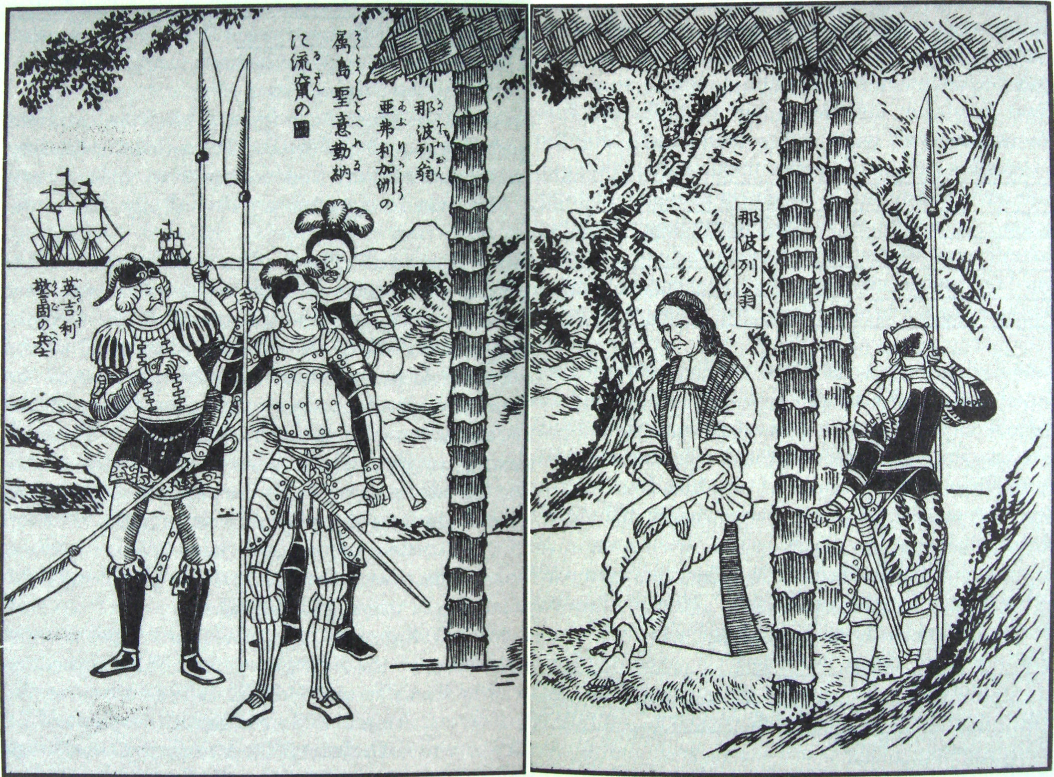 Japanese plates about the captivity of Napoleon in St Helena.